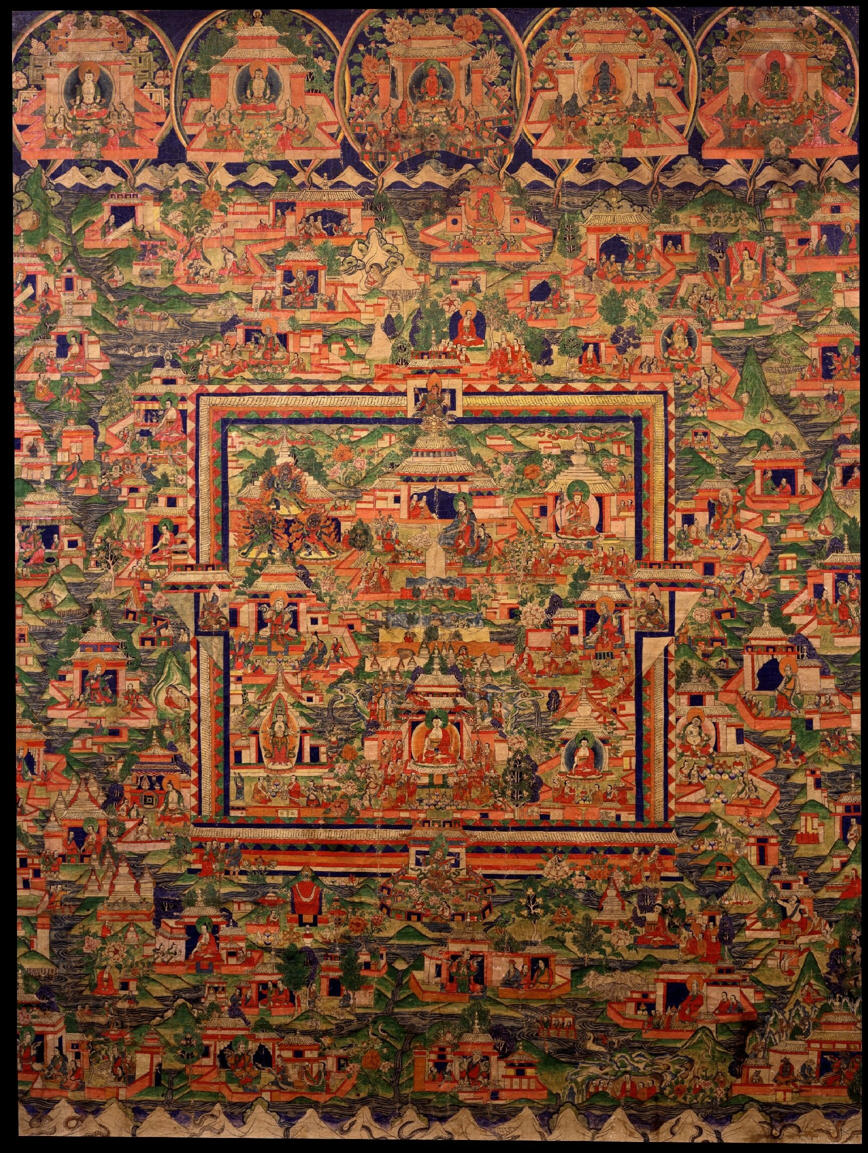 Homeland of Tonpa Shenrab Miwo Olmo Lungring. Tibet, 19th century, Rubin Museum of Art